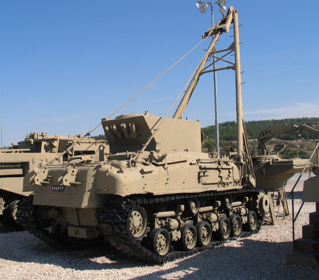 Description: M32 ARV (HVSS variant) in Yad la-Shiryon Museum, Israel. 2005. Source: Photo by me, User:Bukvoed.